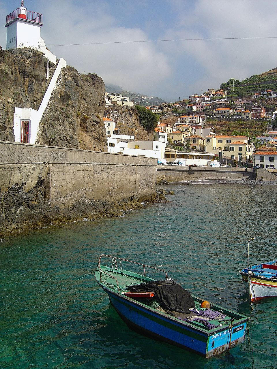 See where this picture was taken. [?]